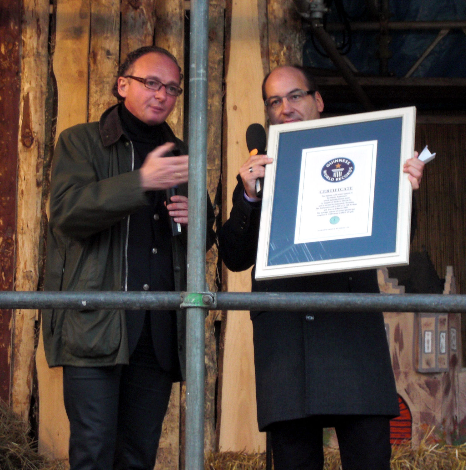 Mayor Achim Hütten (left) with the certificate of Guinness World Records naming the Geysir Andernach in Andernach as the world highest cold-water geyser